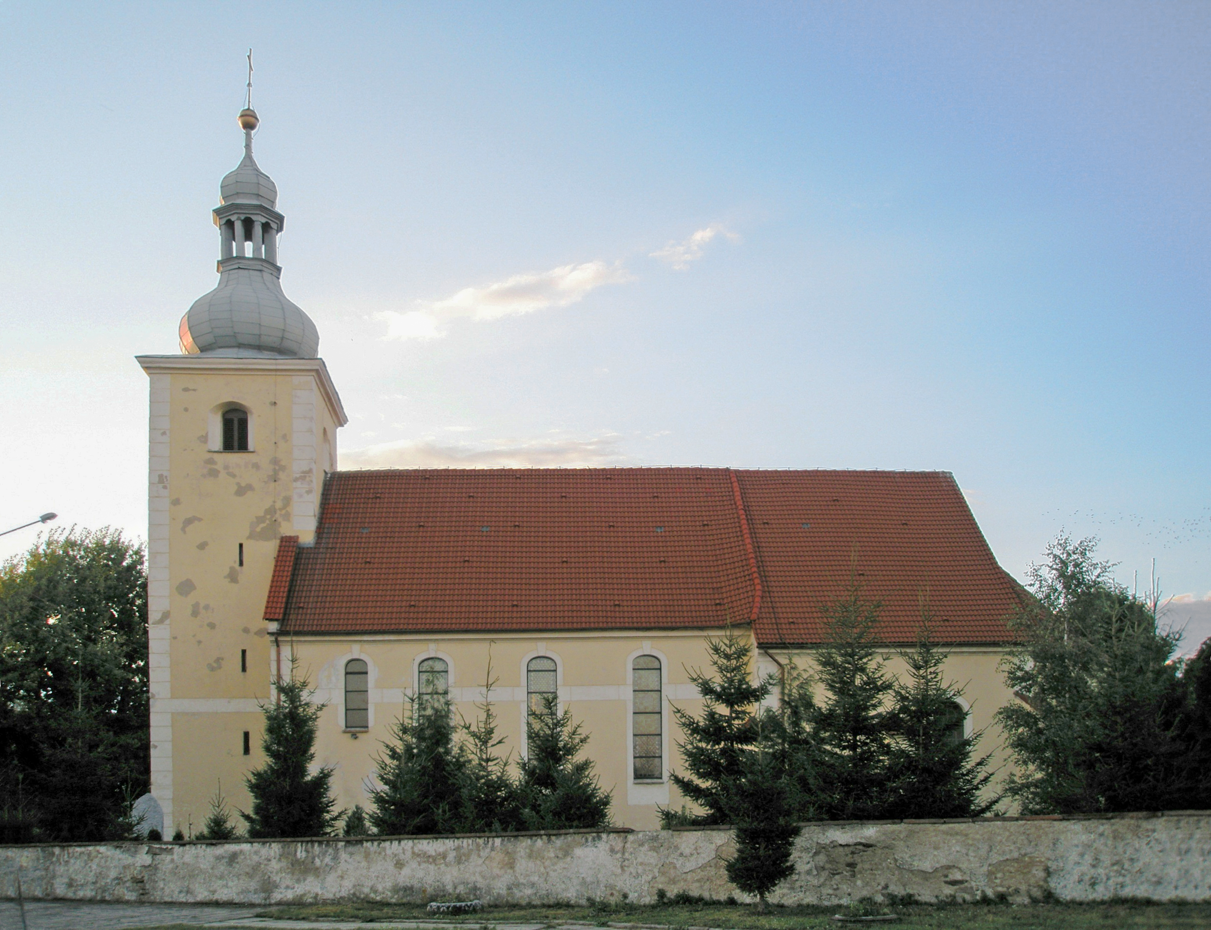 Ciepłowody (Tepliwoda), Immaculate Mother of God Church, former St. Michael Lutheran church